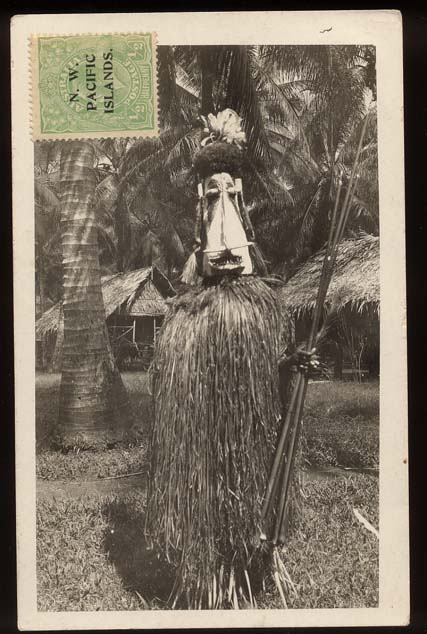 A Witu Islands (French Islands) dancer in full body mask, West New Britain. Early real photo postcard, c 1914-1918 (not postally used, but with provisional British NW Pacific Islands postage stamp, used during this period).